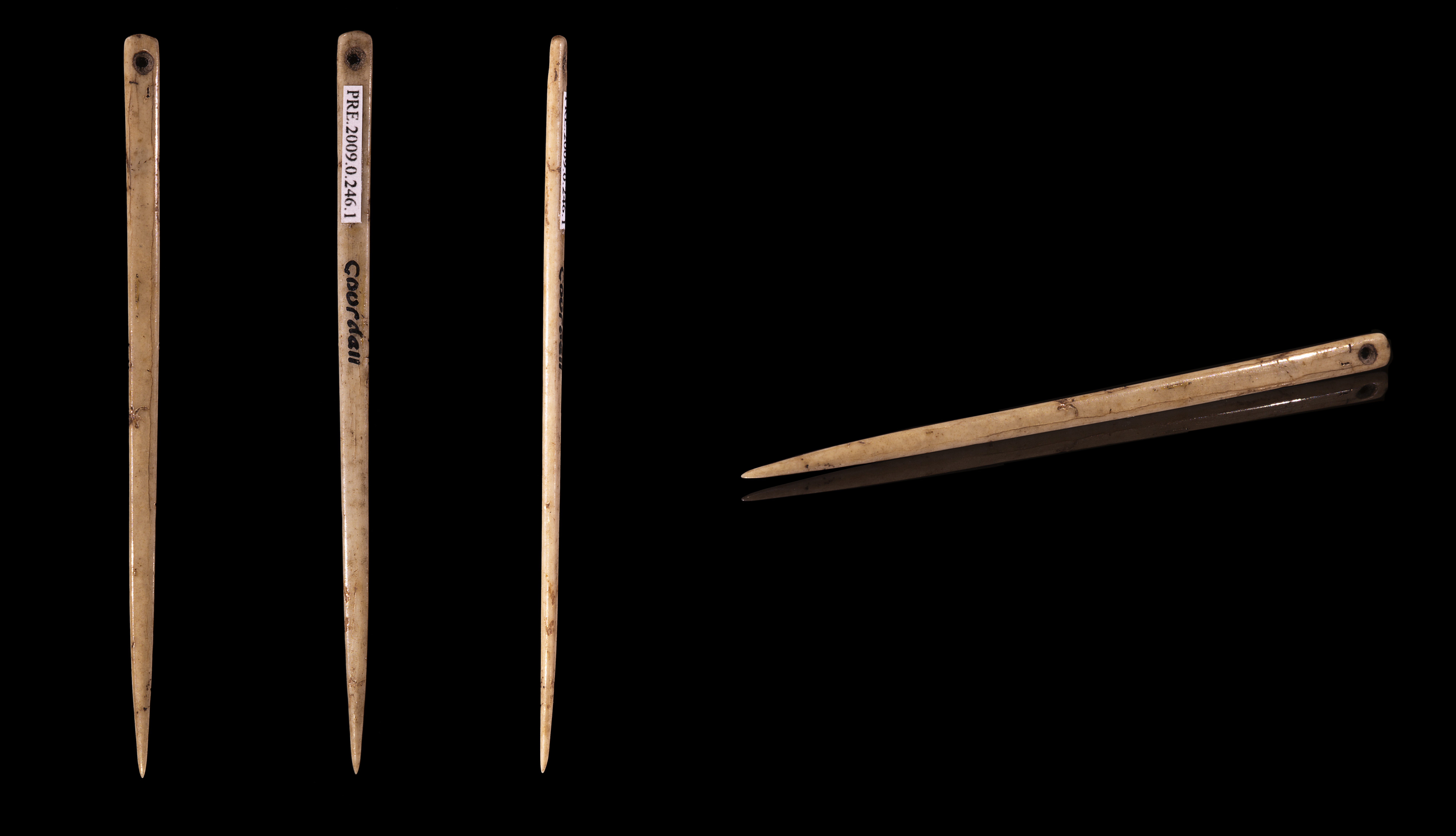 Flat bone sewing needle - Views of the same object Locality : Gourdan cave says "Elephant Cave", Gourdan–Polignan, Haute-Garonne , France Search and collection: Henri Filhol Stage : Magdalenian Upper Paleolithic (between 17,000 and 10,000 Before the Current Era) Size : 59x3x2 mm